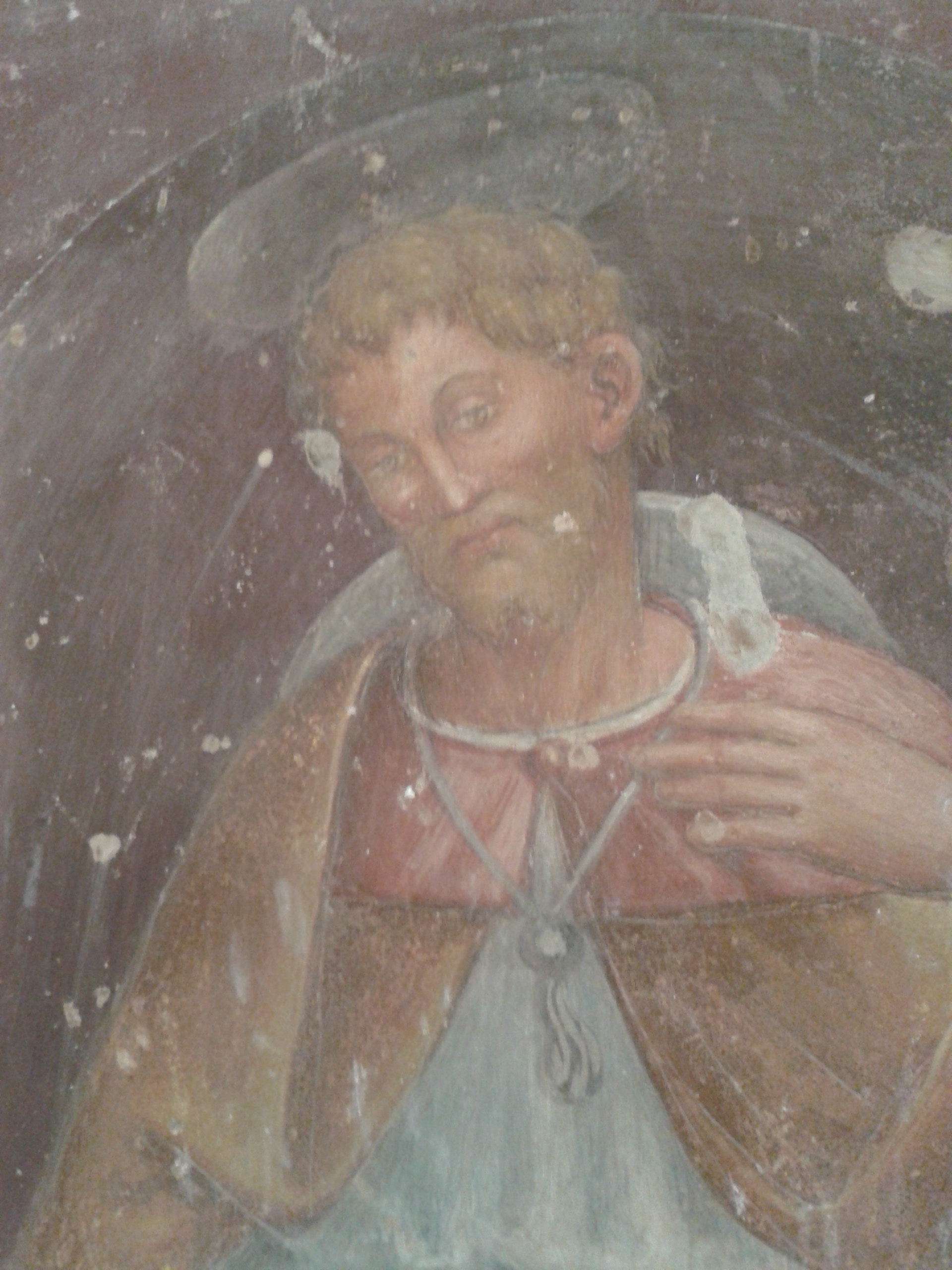 Nicchia di sant'Antonio abate, Giovanni Battista Caporali, scene della vita di Sant' Antonio Abate, particolare di San Rocco